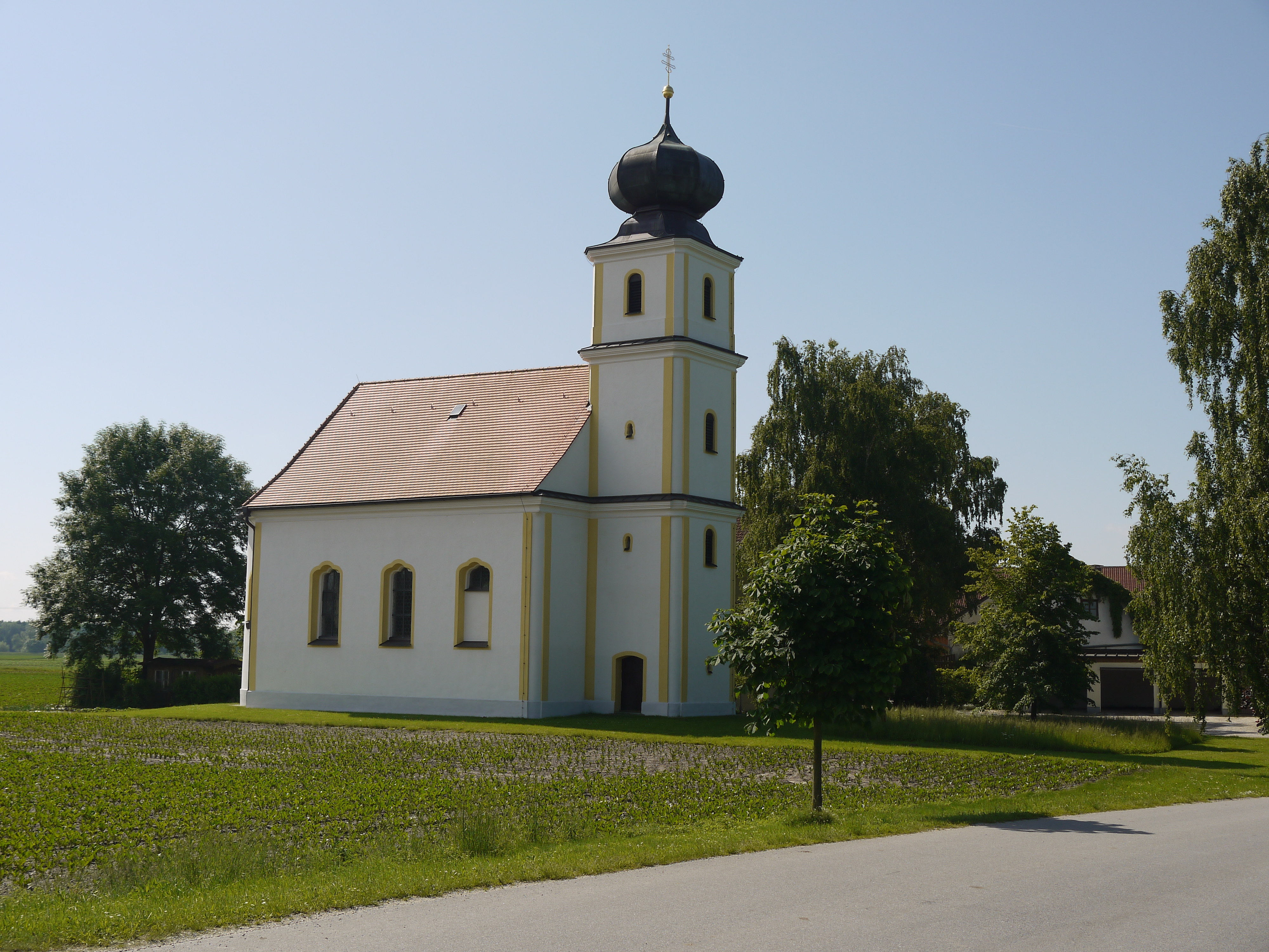 Catholic Branch Church of St. Ulrich at Kleinweichs, District of Deggendorf (Lower Bavaria /Germany)